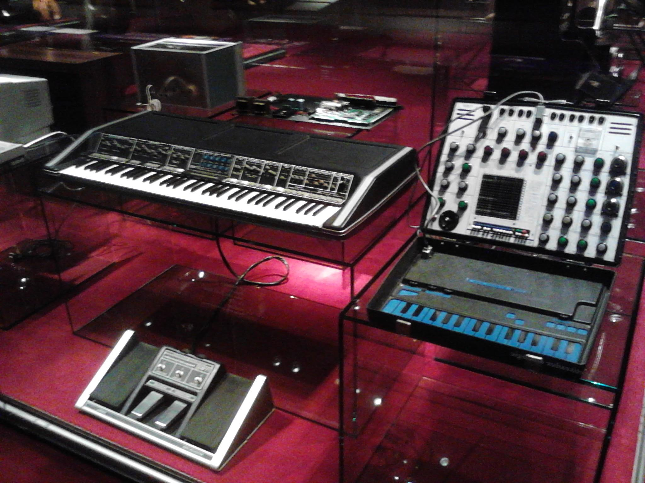 Synth